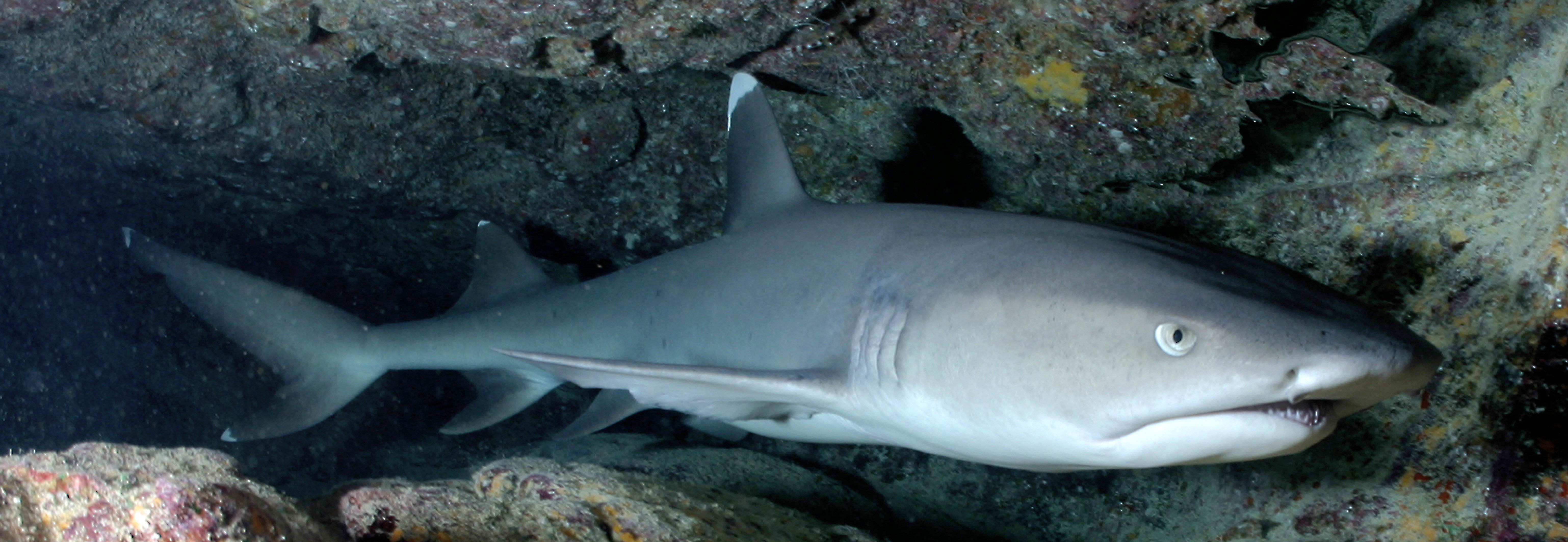 crop of file in file name